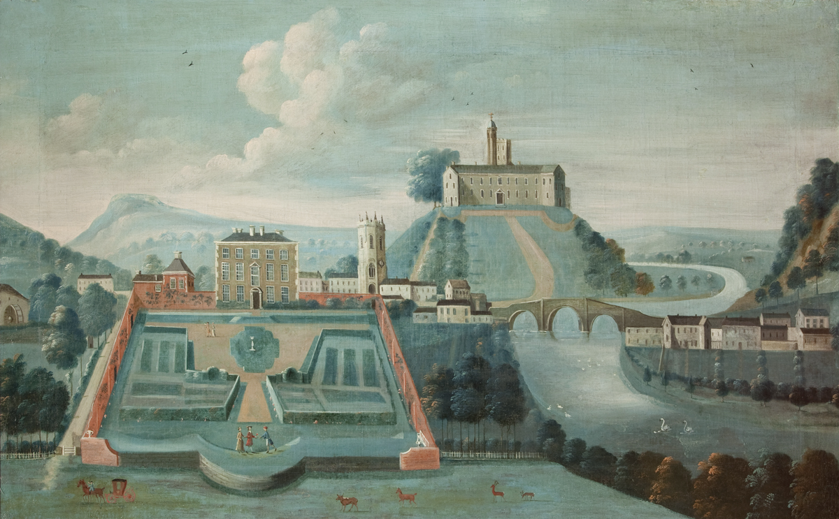 Devis, Arthur; Hornby Hall and Castle; Lancashire County Museum Service; Hornby Hall and Castle and Thomas and Ann (Dowbiggin) Bennison